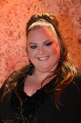 Maltese recording artist ChiaraMalti: Chiara, kantanta Maltija